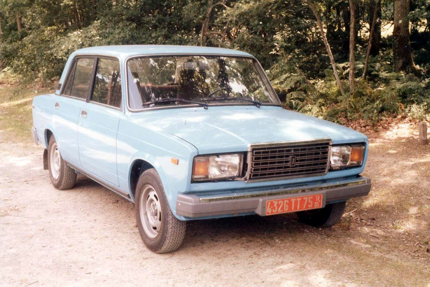 Picture taken in July 1985.